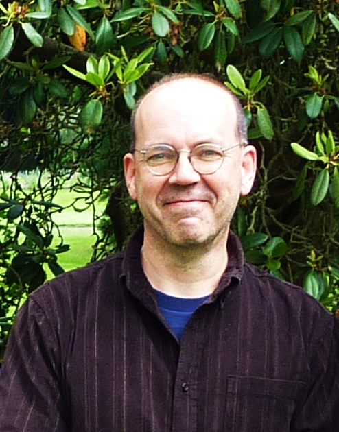 Dietmar von Reeken